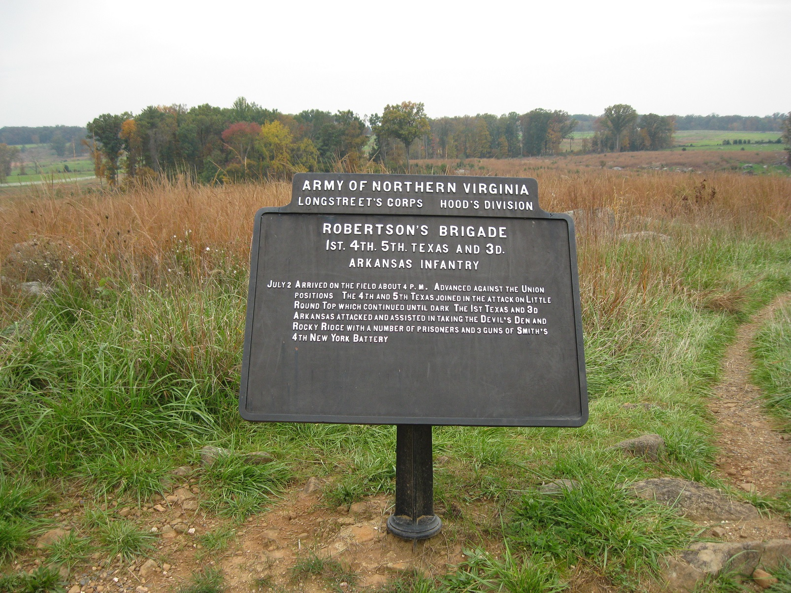 Photo shows the Robertson's Brigade marker at Gettysburg National Military Park near Confederate Avenue and US Business Route 15 in Gettysburg, PA. View is toward the east.